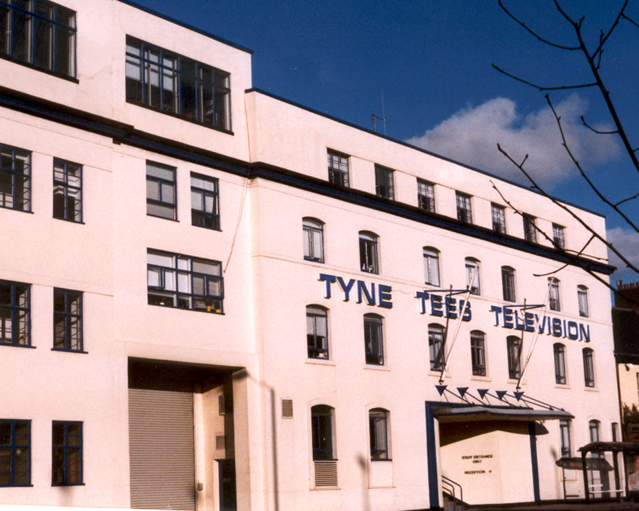 The Tyne Tees Television studio and office complex at City Road, Newcastle upon Tyne. Image created by John-Paul Stephenson in January 1999